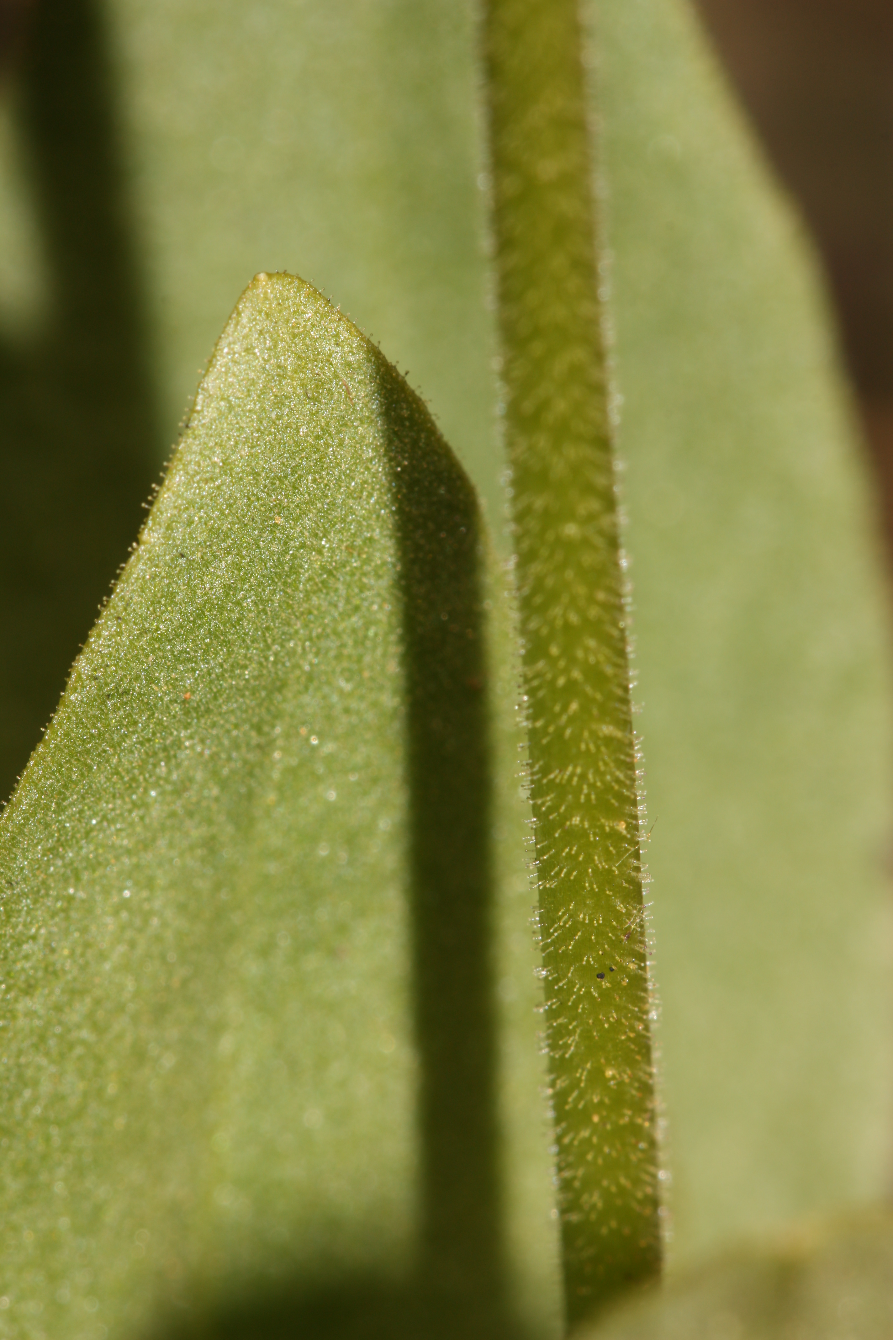 Poet's Shooting Star, Narcissus Shooting Star, Poet's Shootingstar Viewpoint location: Catherine Creek Trail (north of road), Catherine Creek Day Use Area Viewpoint elevation: 191 meter (627 ft) Location source: Google Earth Location Datum: WGS84